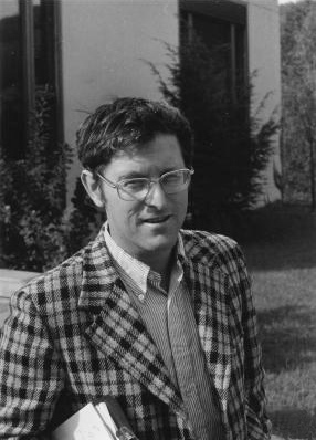 Dan Wyler Stroock, American mathematician, at Oberwolfach. Depicted person: Daniel W. Stroock – American mathematician